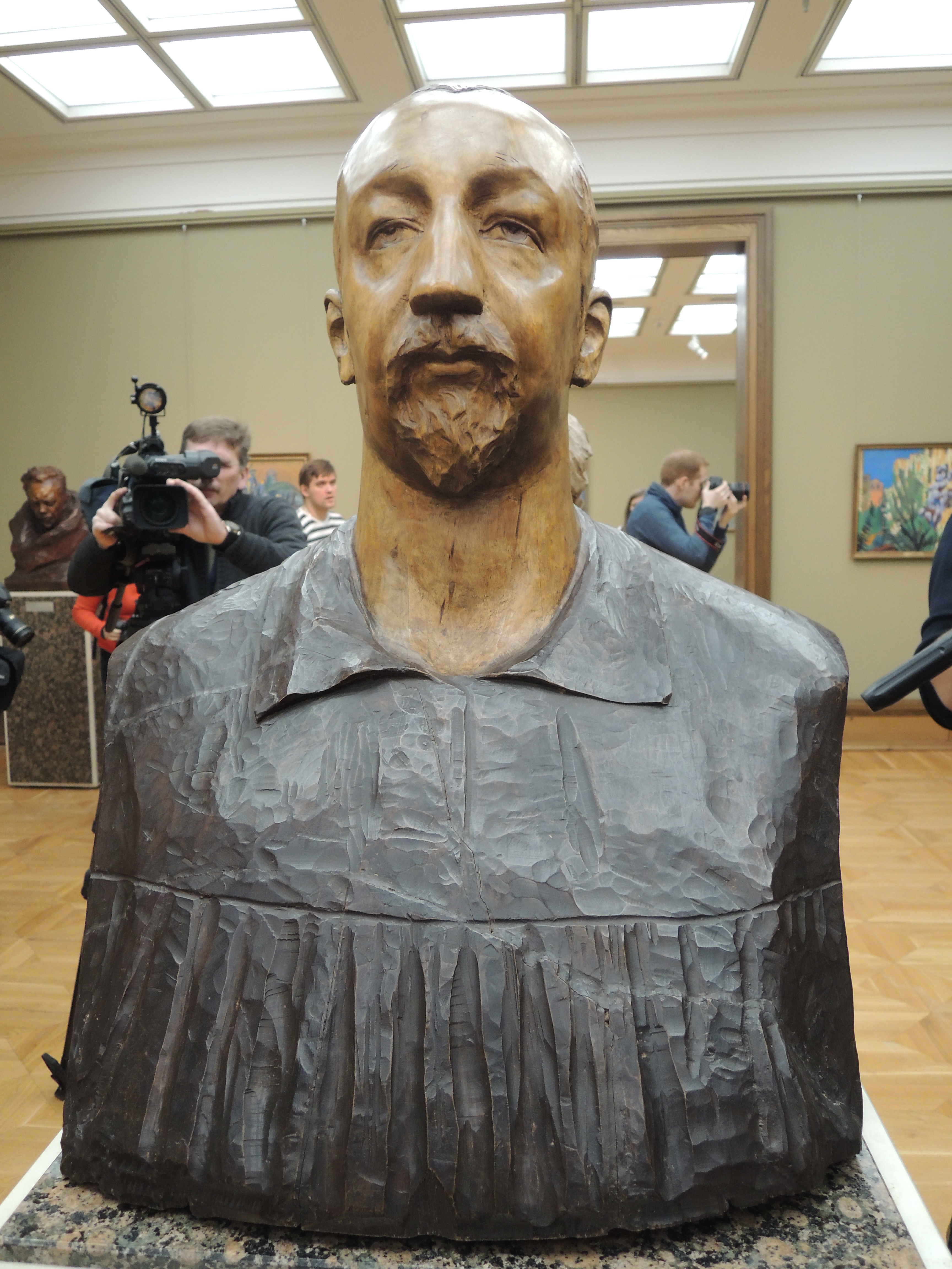 see filename. Own photo of work of sculptor Anna Golubkina (1864-1927)